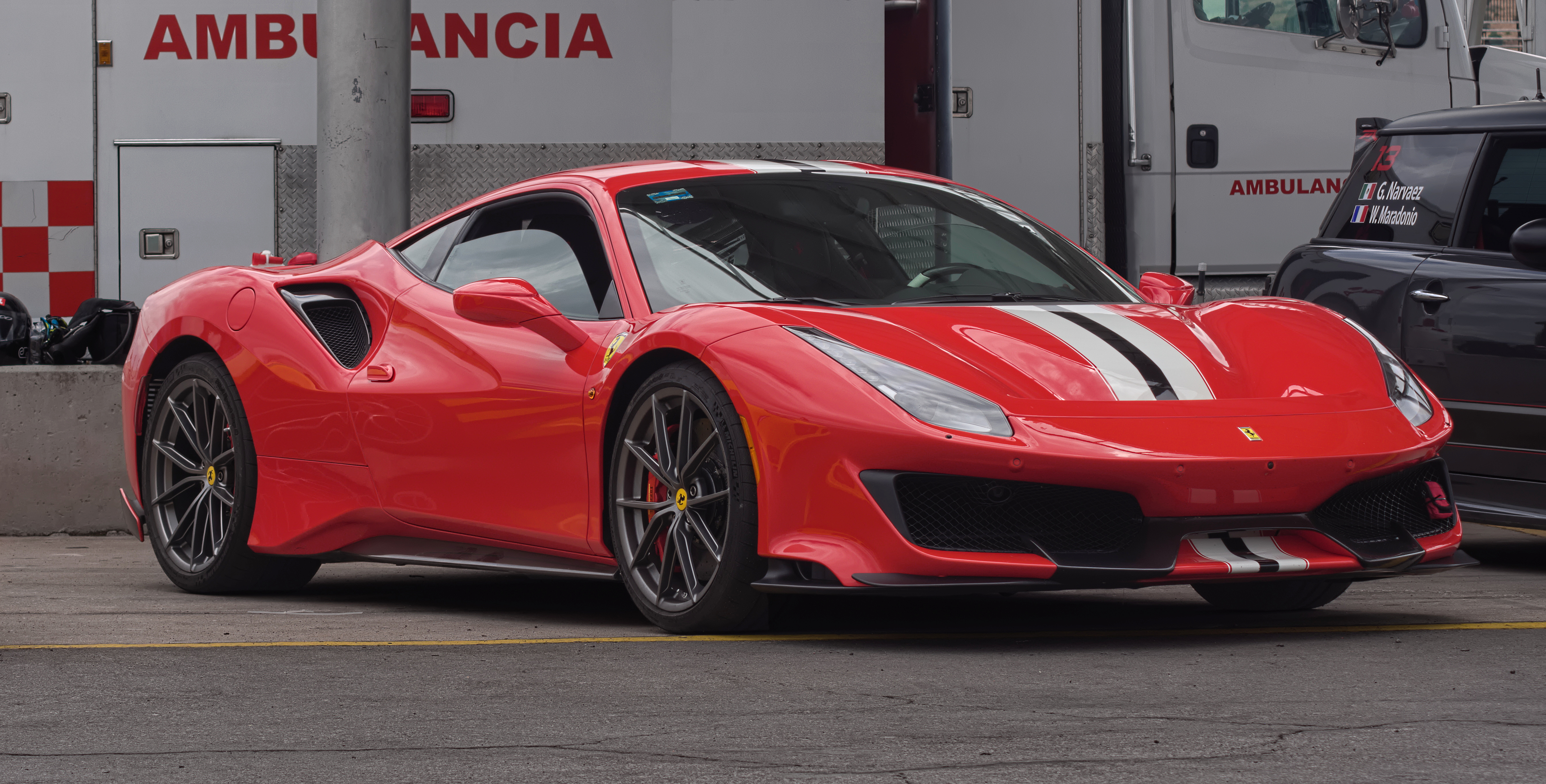 Ferrari 488, at racing circuit Miguel E. Abed, Puebla, Mexico